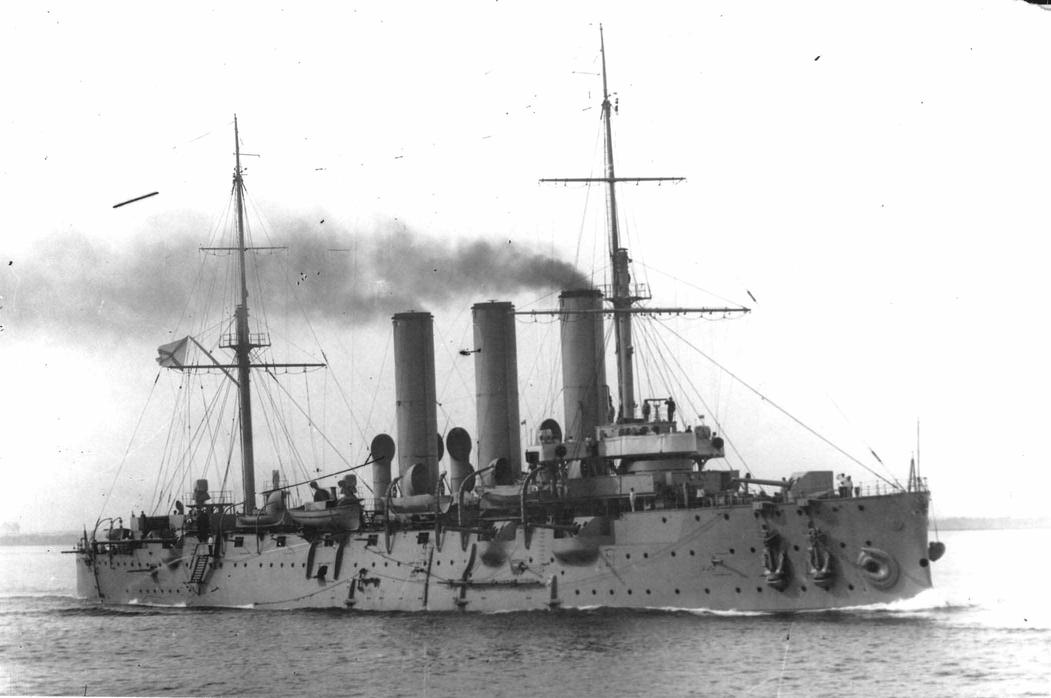 Protected cruiser Avrora in 1910.